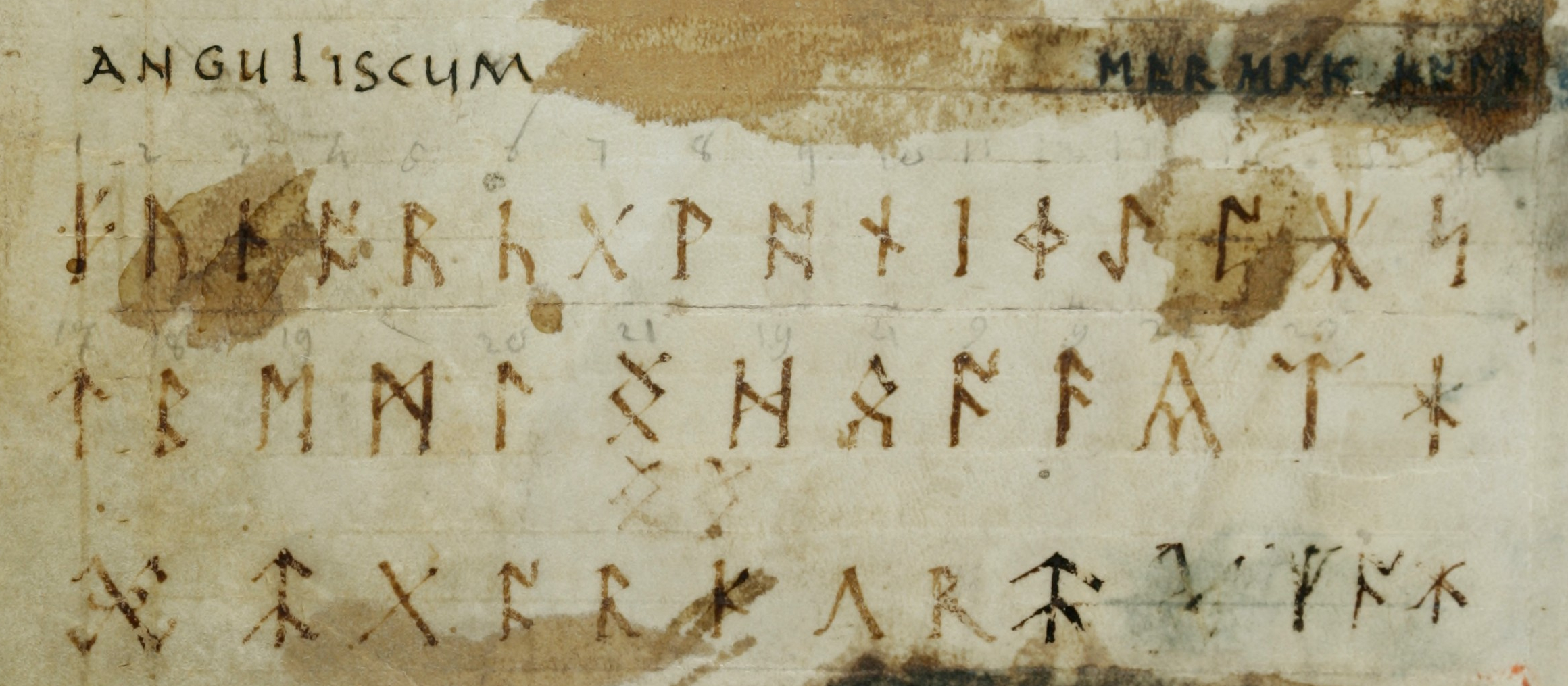 The Anglo-Saxon futhorc (abecedarium anguliscum) as presented in Cod. Sang. 878.